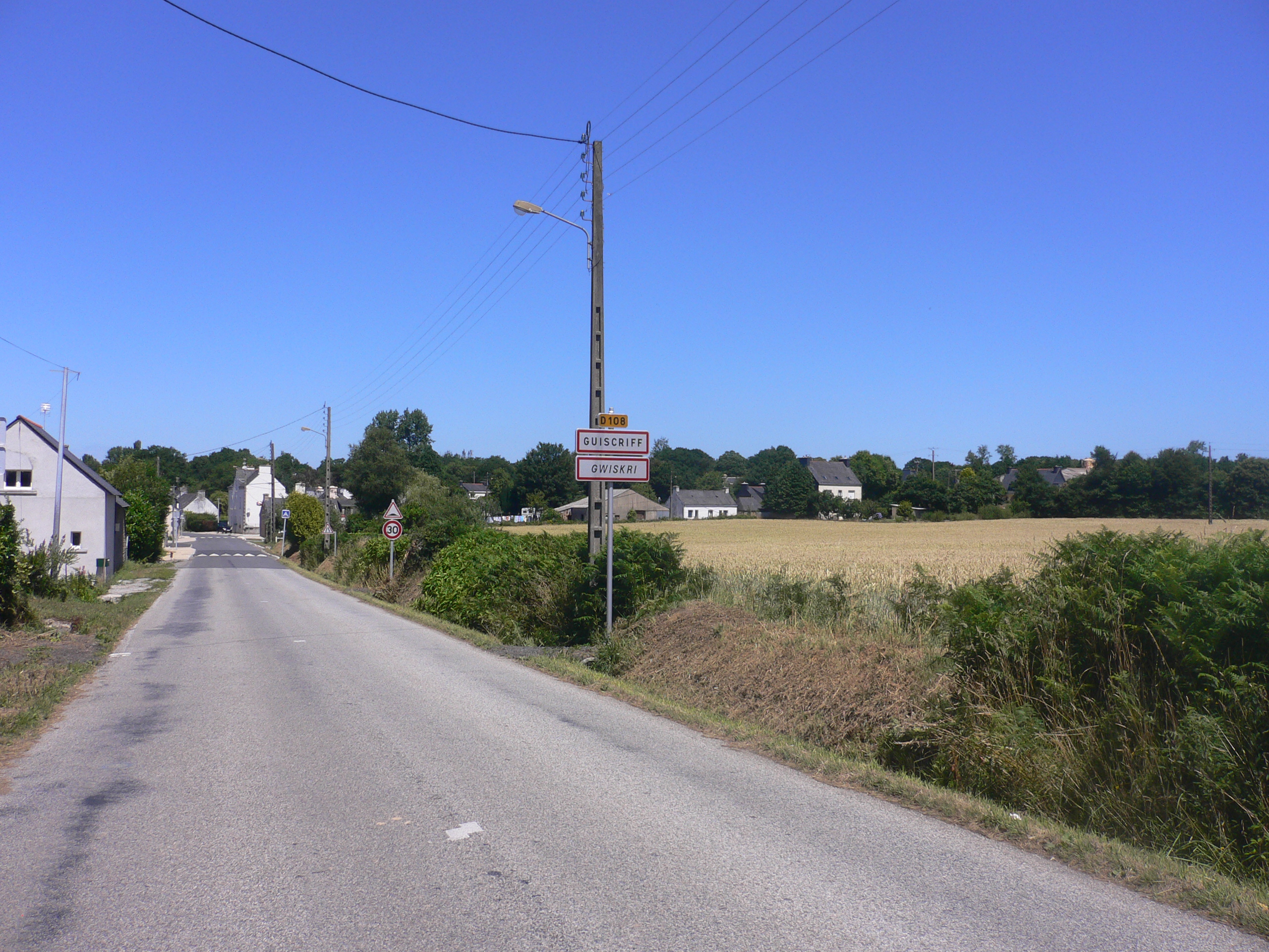 bilingual sign in Guiscriff, Brittany